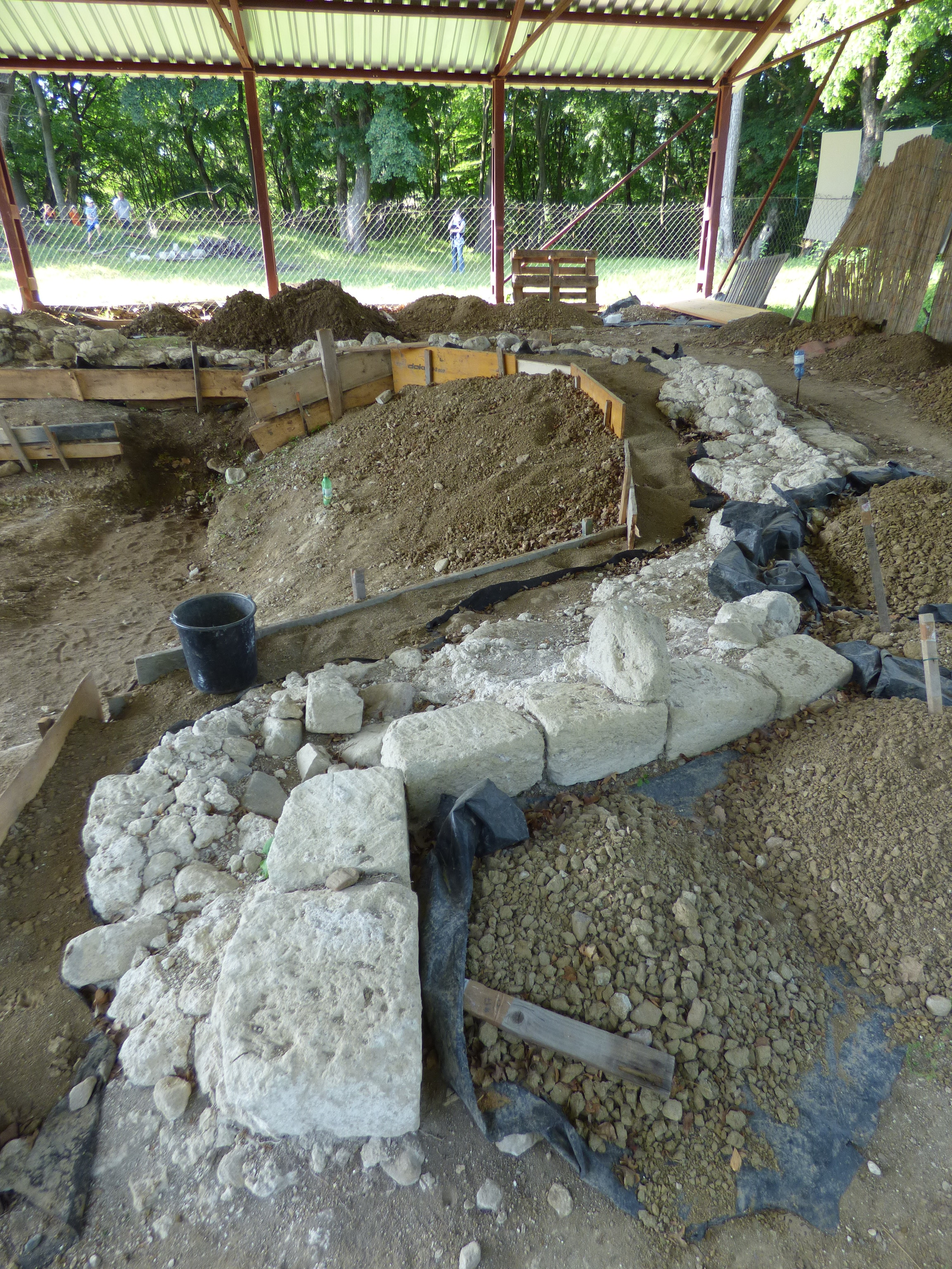 Nagykovácsipuszta templomrom apszis felőli része